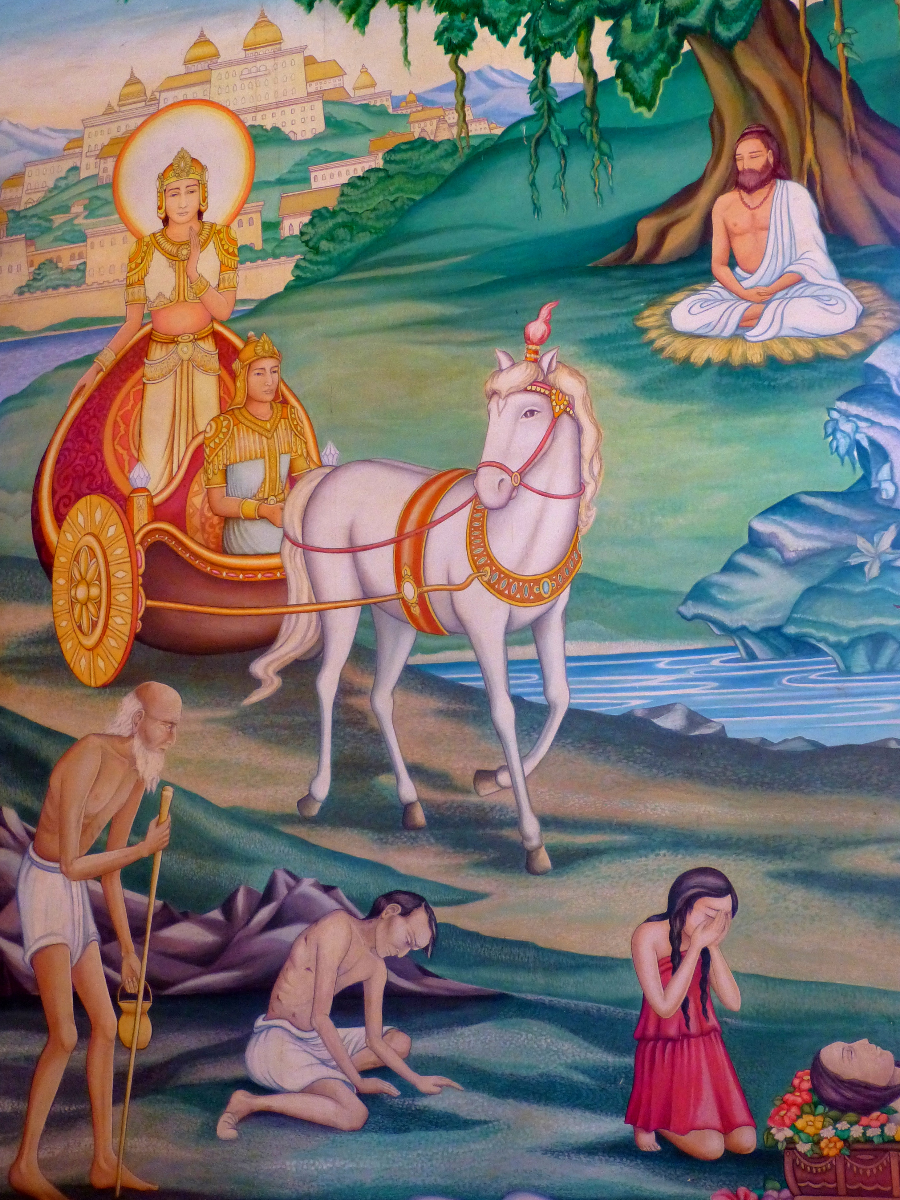 83 Four Signs, Tibetan Temple, Bodhgaya